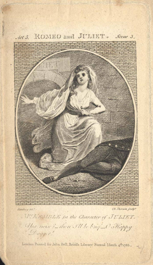 Elizabeth (Satchell) Kemble